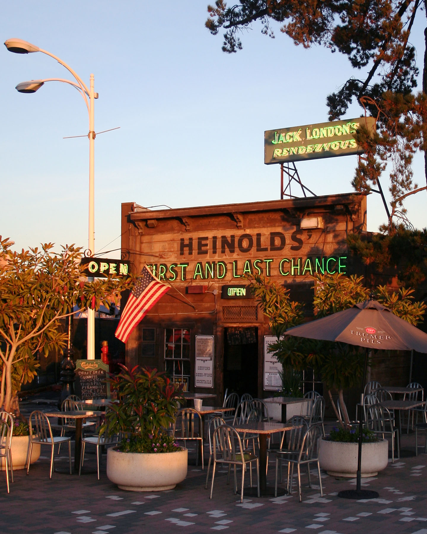 Heinold's First and Last Chance a last chance saloon in Jack London Square, Oakland, CA.